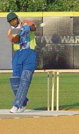 Marlon Samuels playing for Chicago against the Arrowheads on 17 July 2004. This image was later used on the LittleIndia magazine website.